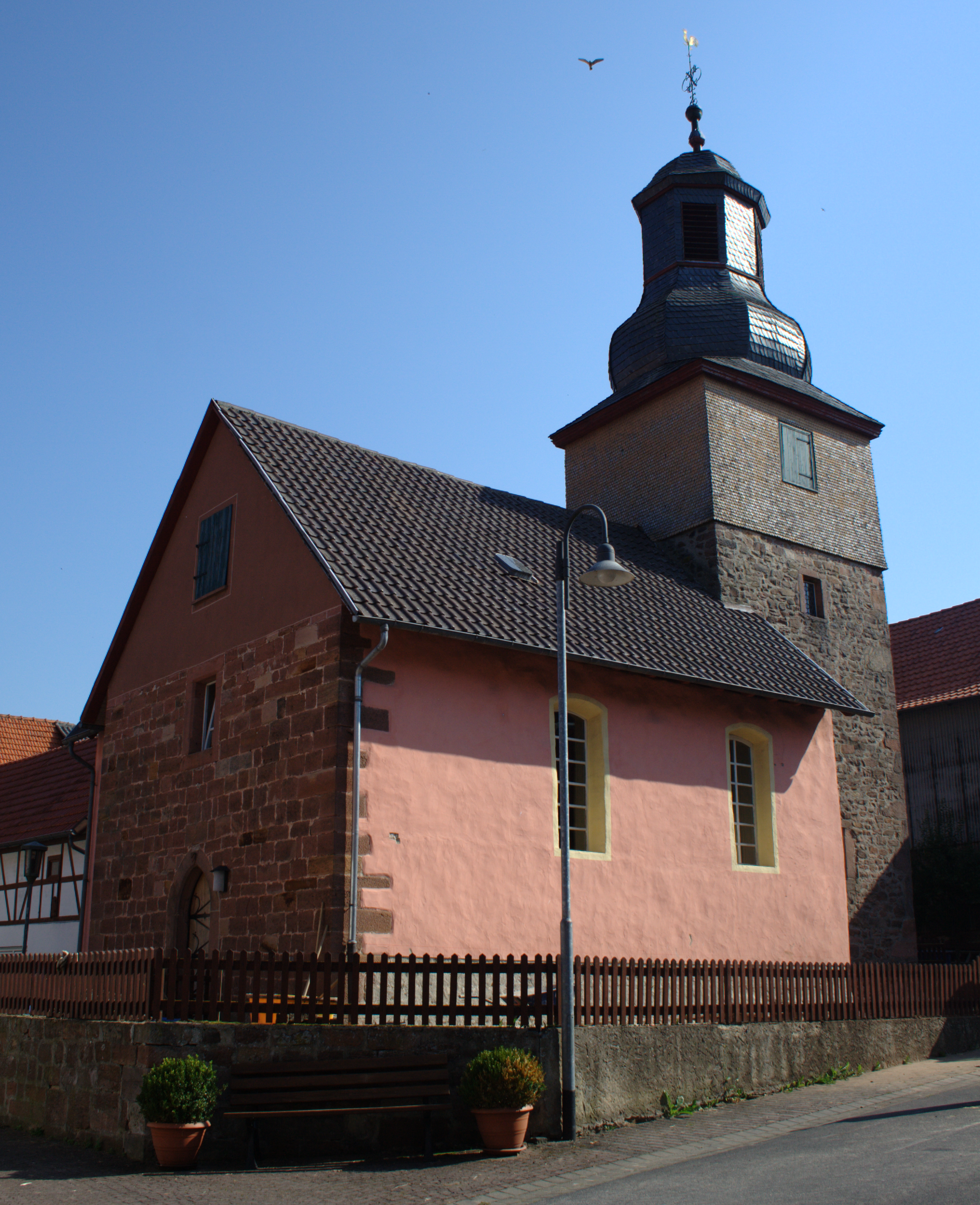 Church in Sandlofs / Schlitz / Vogelsberg / Hesse / Germany